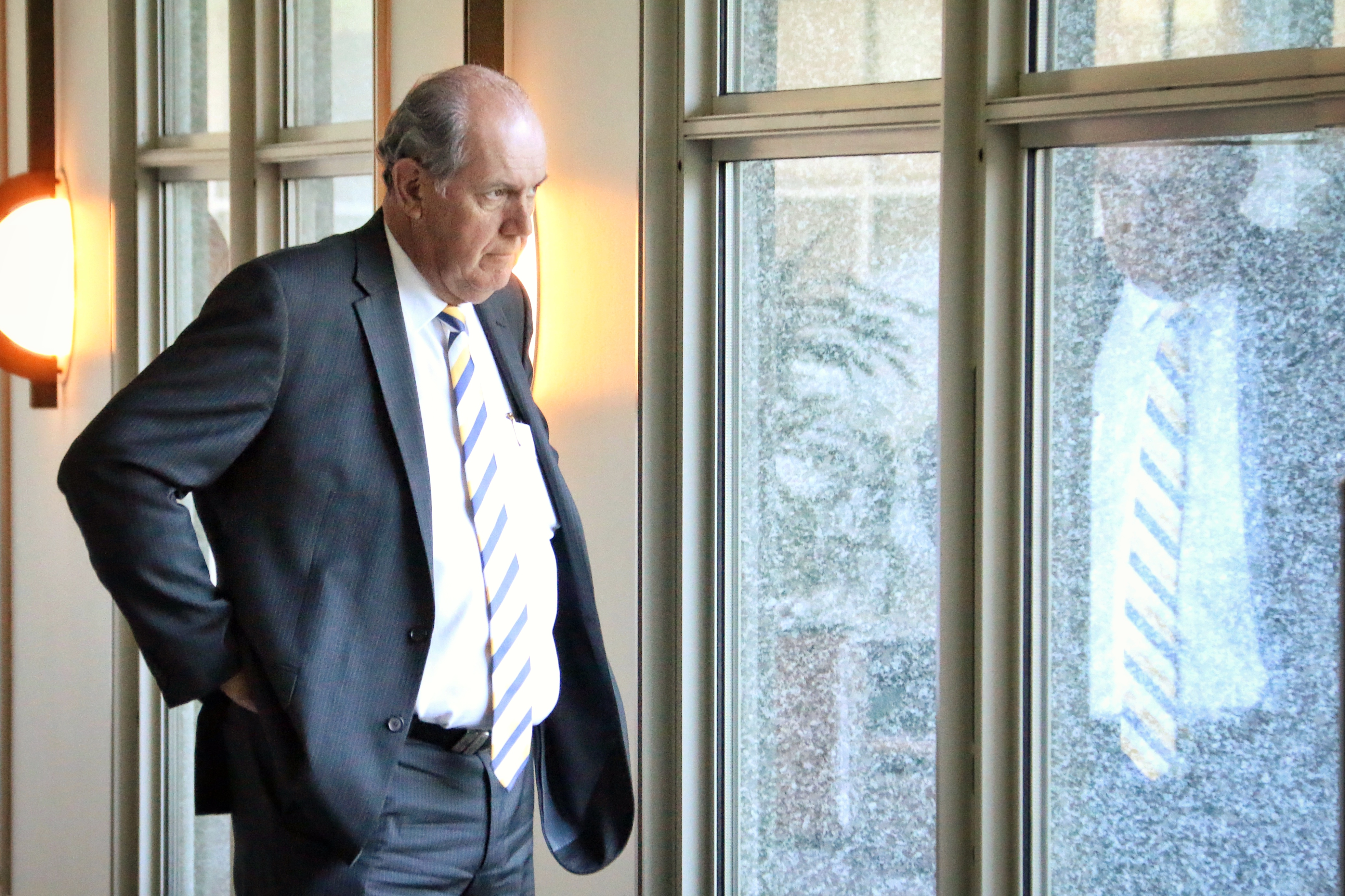 David Johnston, former Austalian Minister for Defence